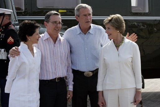 President George W. Bush and Colombian President Alvaro Uribe pose with their wives, U.S. first lady Laura Bush (R) and Colombia first lady Lina Moreno at the President's Central Texas ranch in Crawford, Texas, on August 4, 2005.